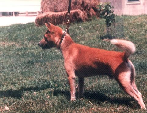 Singing Dog Murray Being Trained